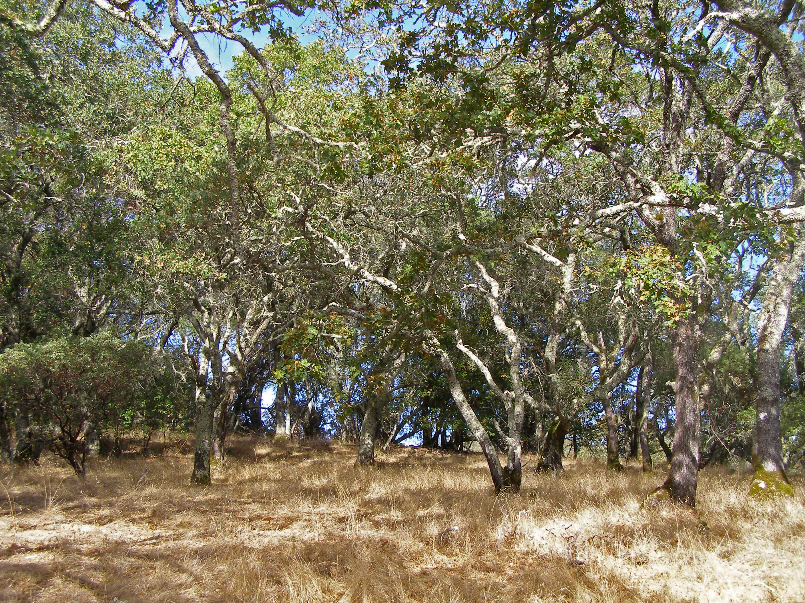 photographer=self